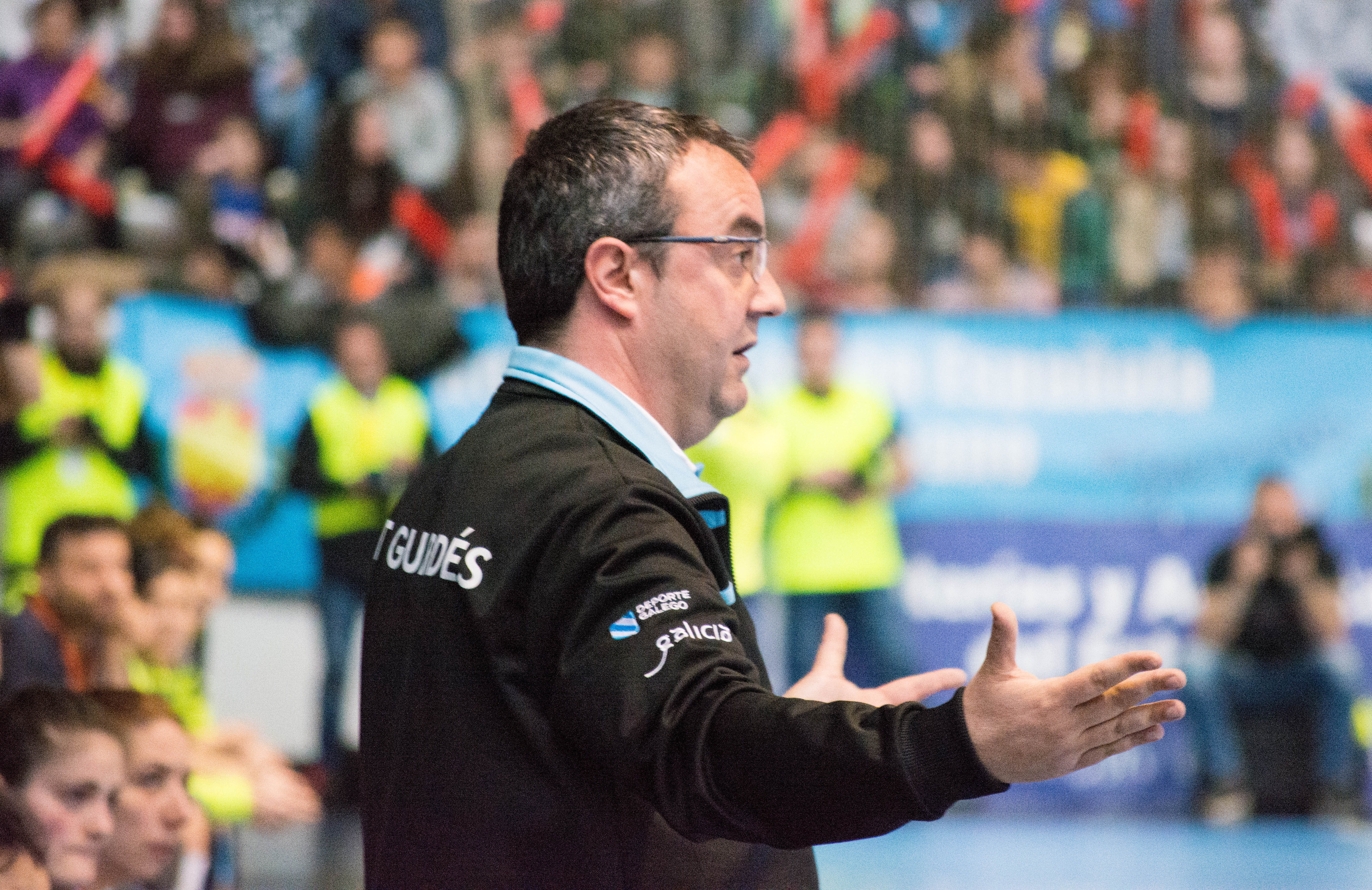 Copa De S. M. La Reina 2016 de Balonmano - O Porriño